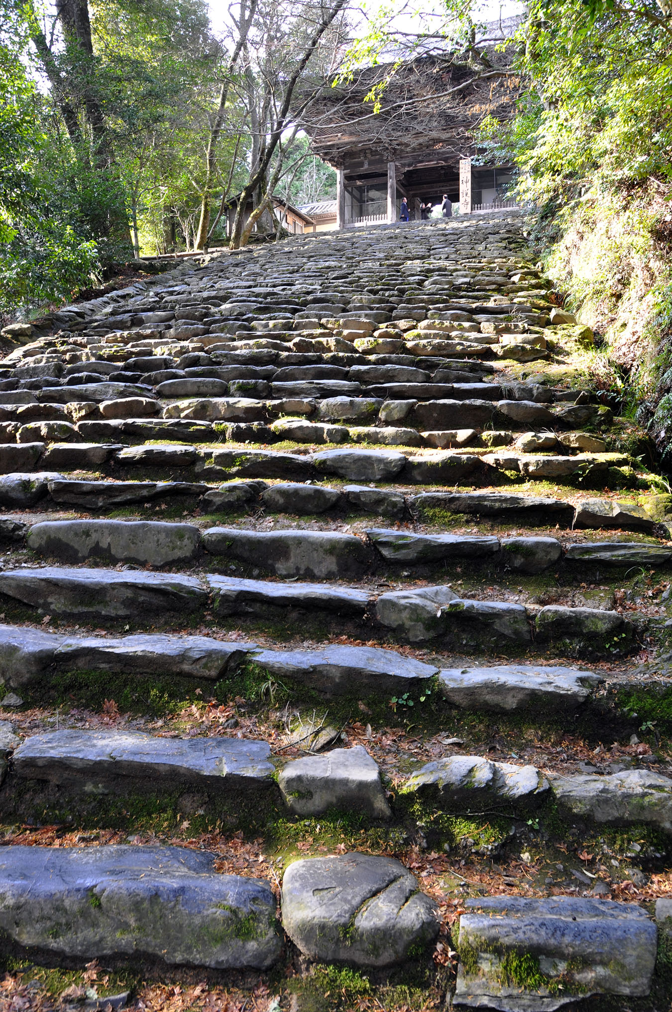 This photograph shows the gate (Rōmon) at Jingo-ji in Kyoto. 京都市にある高雄山寺神護寺の楼門。